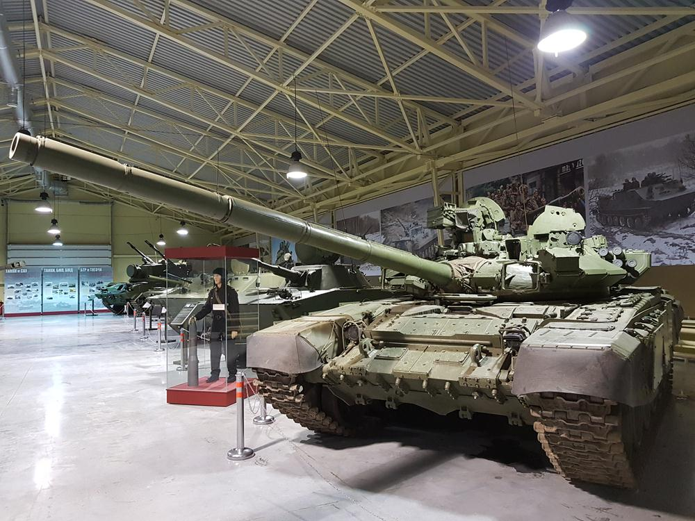 T-90 tank